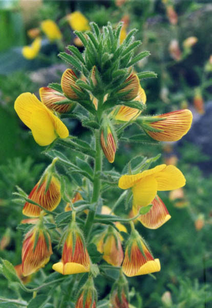 Ononis natrix